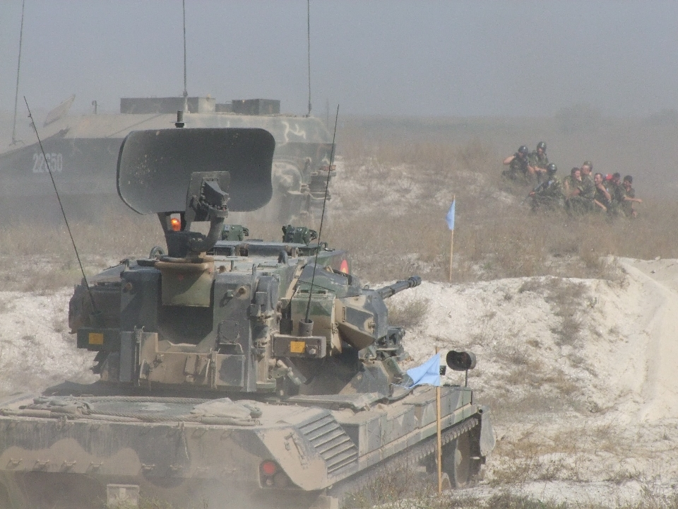 Strategic Level Exercise “LITORAL 11” conducted at Capul Midia firing range.